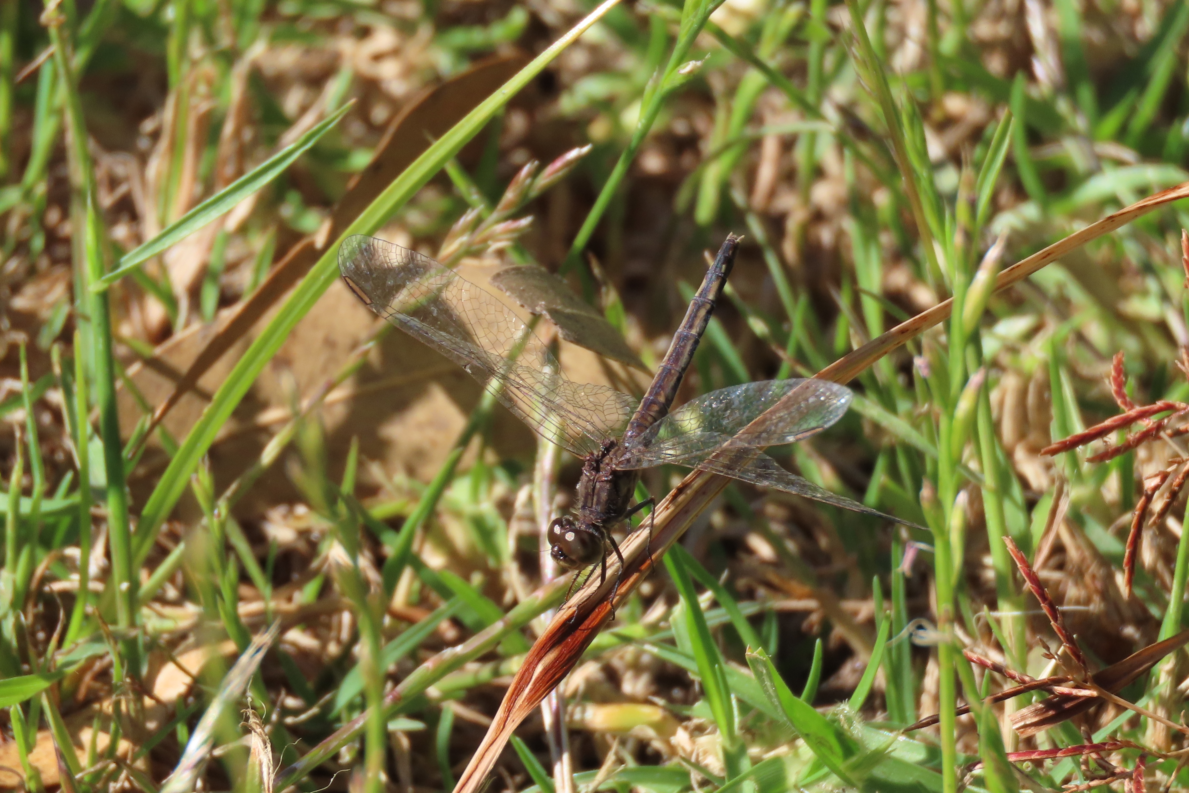 Black Percher Diplacodes lefebvrii female. Females of this species vary in colour, and their coloration is not always clear.